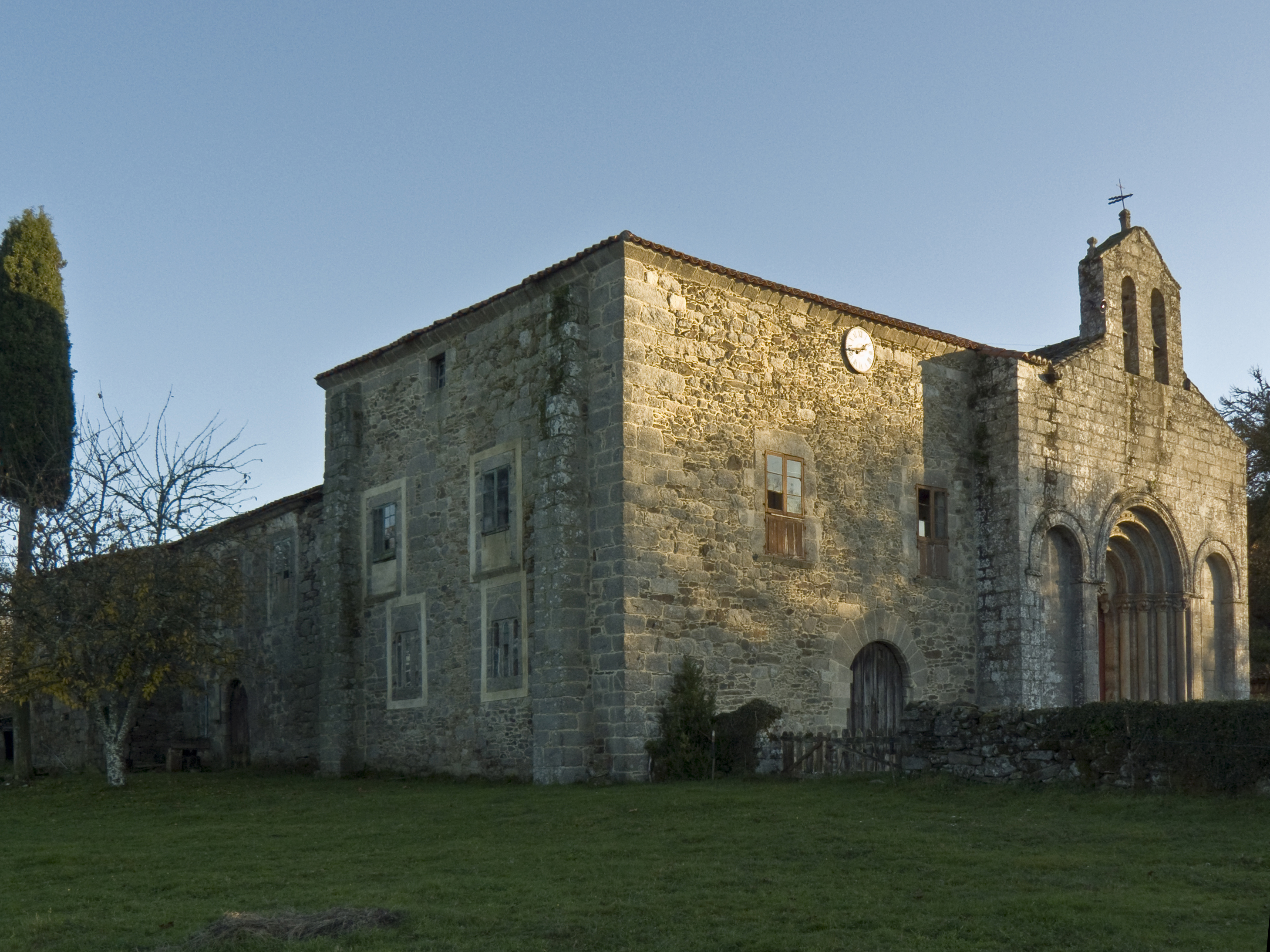 Romanesque church of monastery of San Paio de Diomondi - O Saviñao - Galicia - Spain